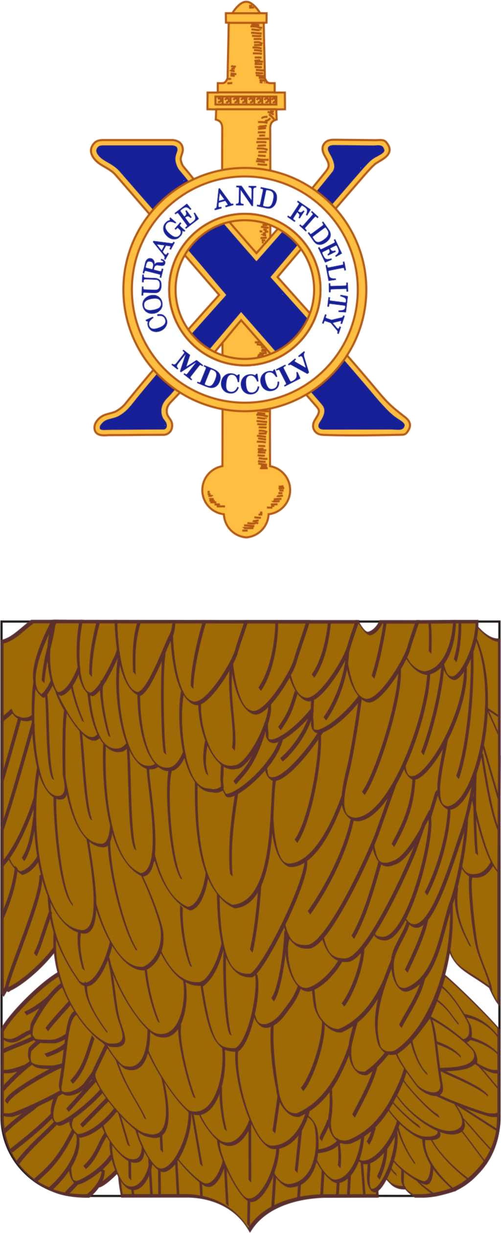 10th Infantry Regiment Coat Of Arms